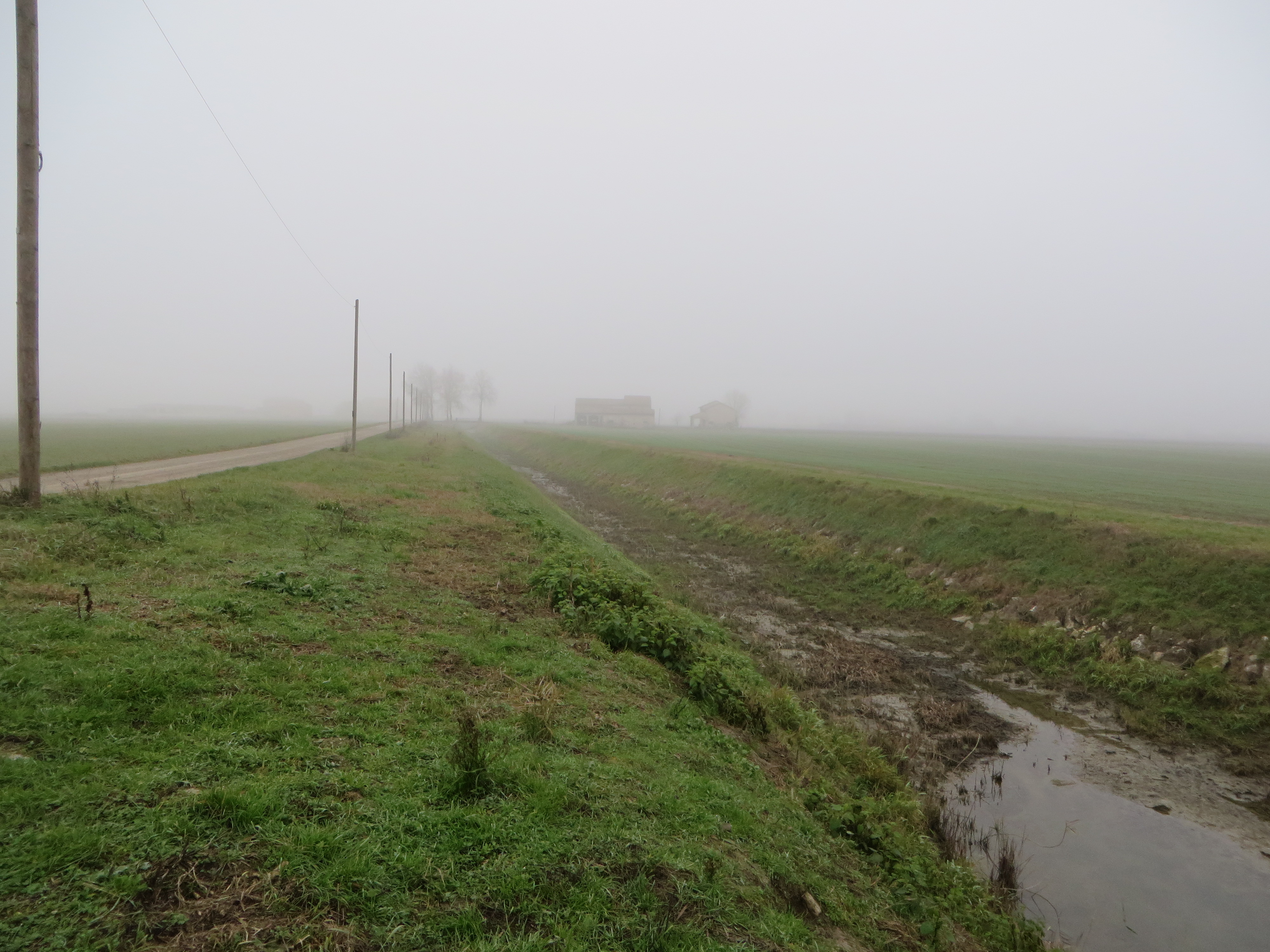 Rigosa canal